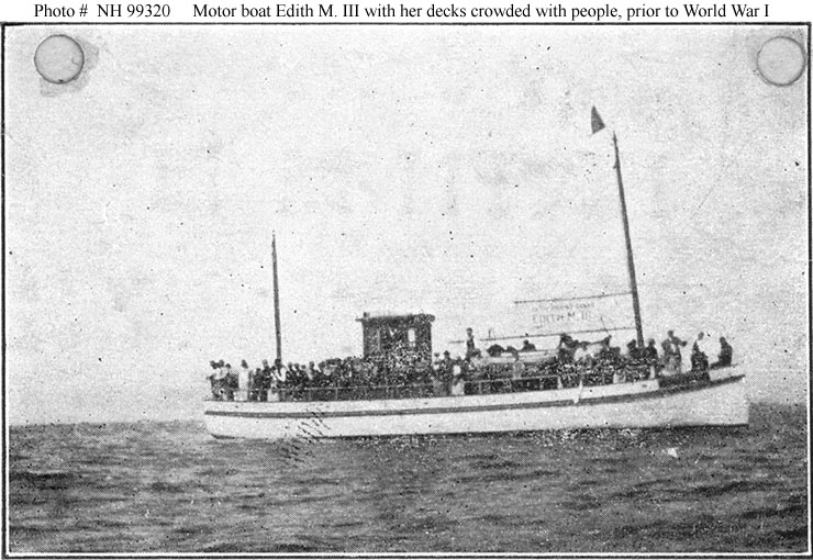 Motorboat Edith M. III, prior to her United States Navy service as patrol vessel USS Edith M. III (SP-196)